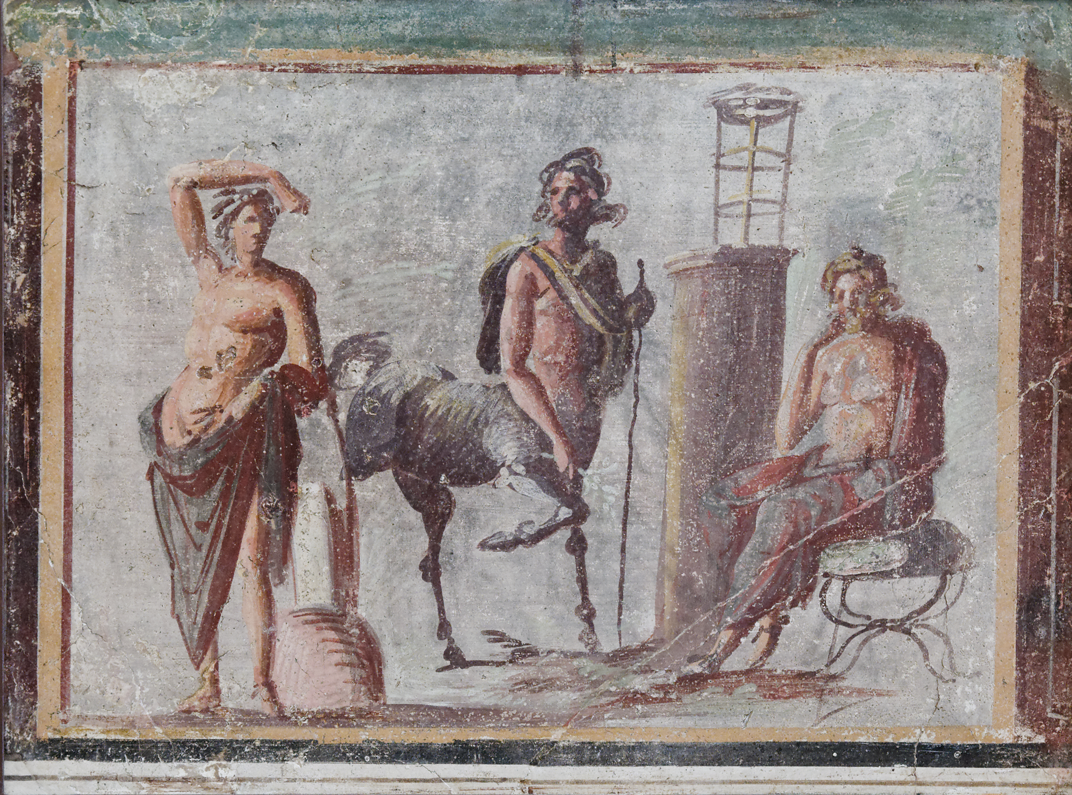 From left to right: Apollo (of the Apollo Lykeios type), Chiron, and Asclepius.